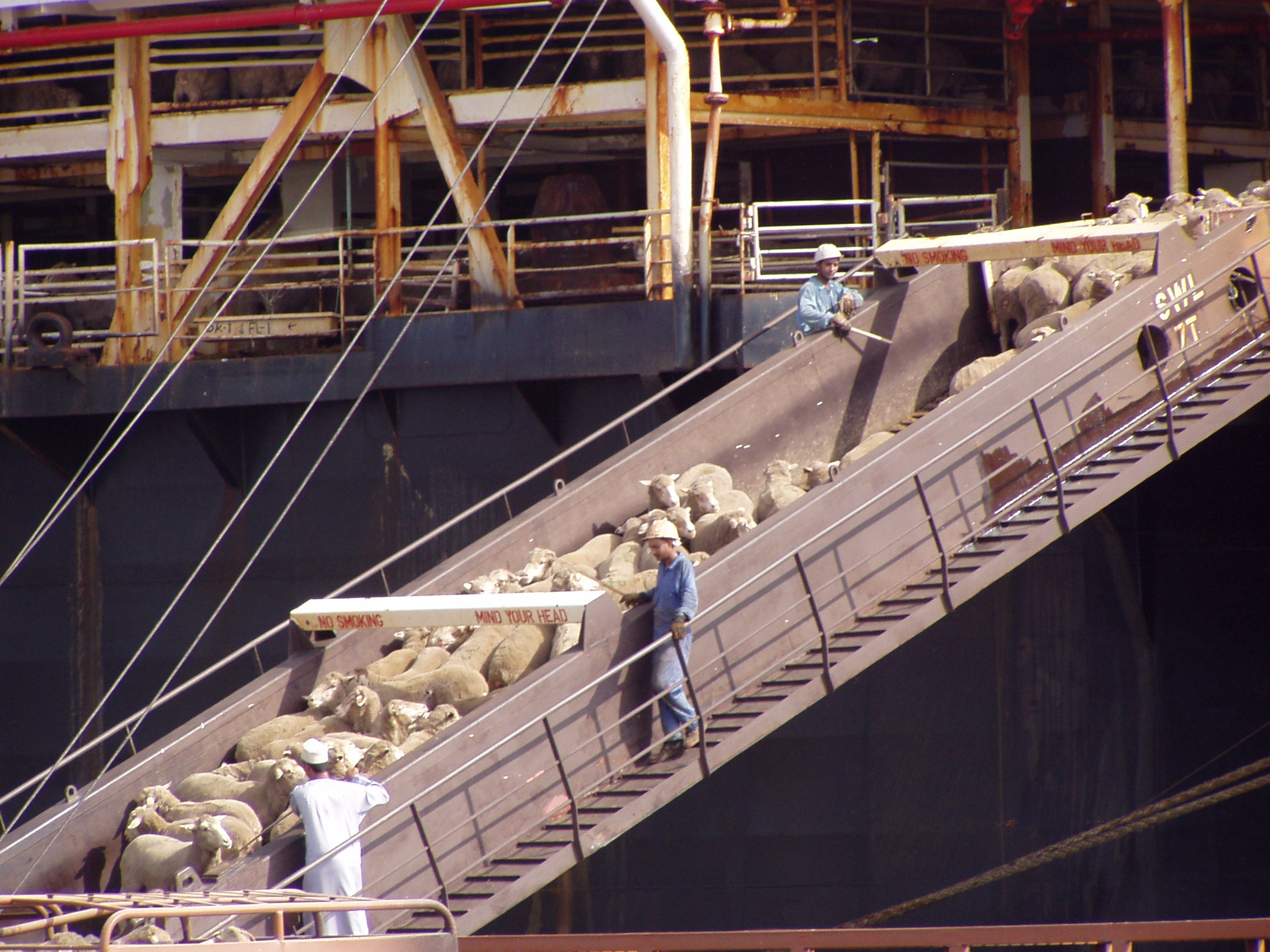 Sheep being offloaded from a cargo ship in Oman